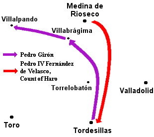 Troop movements prior to and during the Battle of Tordesillas during the Revolt of the Comuneros. Pedro Girón's comunero army advanced to Villabrágima in late November. On December 2, he headed west to Villalpando. The royalist troops left Medina de Rioseco on the night of December 4, and took Tordesillas on December 5. Girón's army moved inexplicably slowly to counter the royal move, much of it being loaded down with loot from Villalpando, and he did not coordinate with other comuneros in Valladolid to launch a quick attack to retake Tordesillas or attack the depleted garrison at Medina de Rioseco. Note: According to Stephen Haliczer's The Comuneros of Castile: The Forging of a Revolution, 1475-1521, the Royal army took Peñafiel on its way to Tordesillas. Since Peñafiel is to the east of Valladolid, and the advance is described as a quick march directly to its goal, I strongly suspect that Haliczer is mistaken and meant Peñaflor de Hornija, which is on the path (slightly to the northeast of Torrelobatón). Coordinates used to make the map (North degrees, West degrees): Medina de Rioseco 41.883333, -5.033333 Villalpando 41.866666, -5.4 Villabrágima 41.816666, -5.116666 Valladolid 41.649000, -4.727700 Tordesillas 41.5, -5 Torrelobaton 41.65, -5.01666 Toro 41.52, -5.4